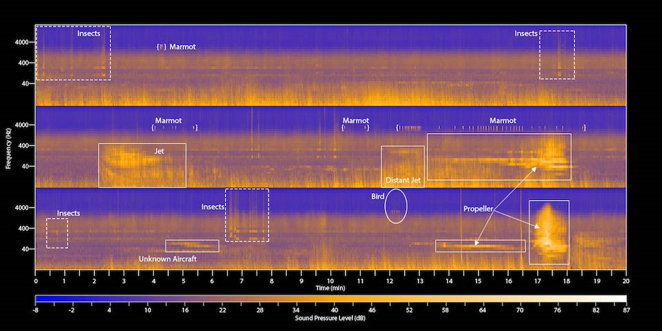 Soundscape of Mount Rainier, showing marmot, bird, insect and aircraft noises.